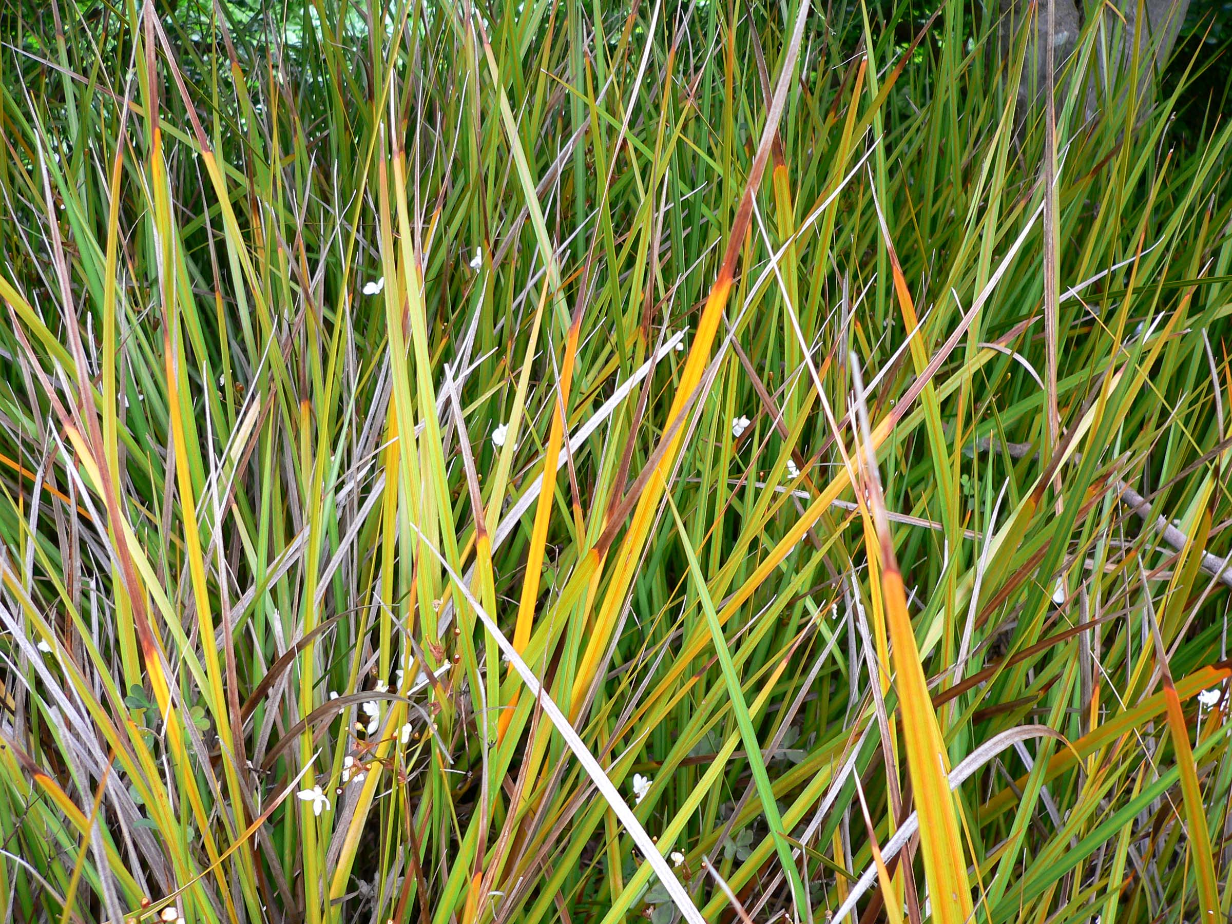 Photo of Libertia peregrinans at the San Francisco Botanical Garden